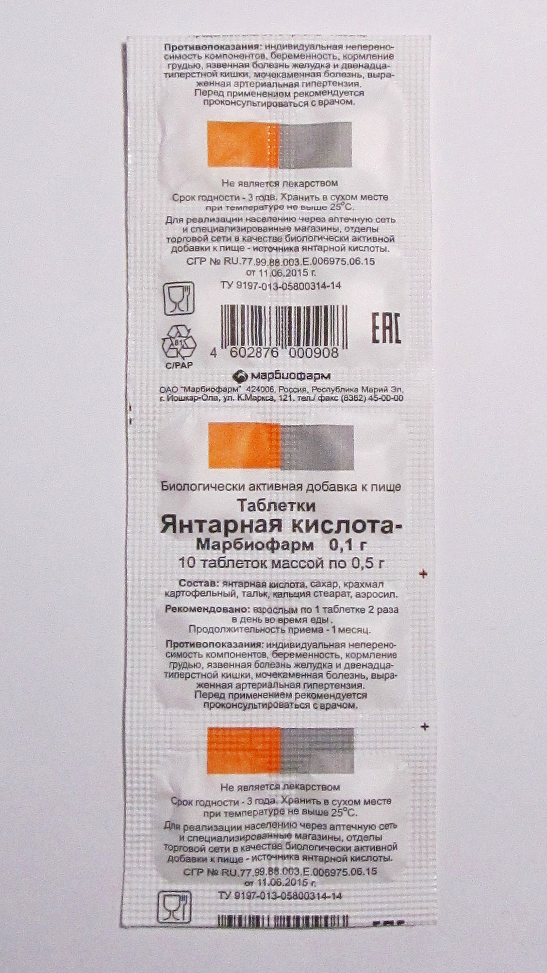 Succinic acid